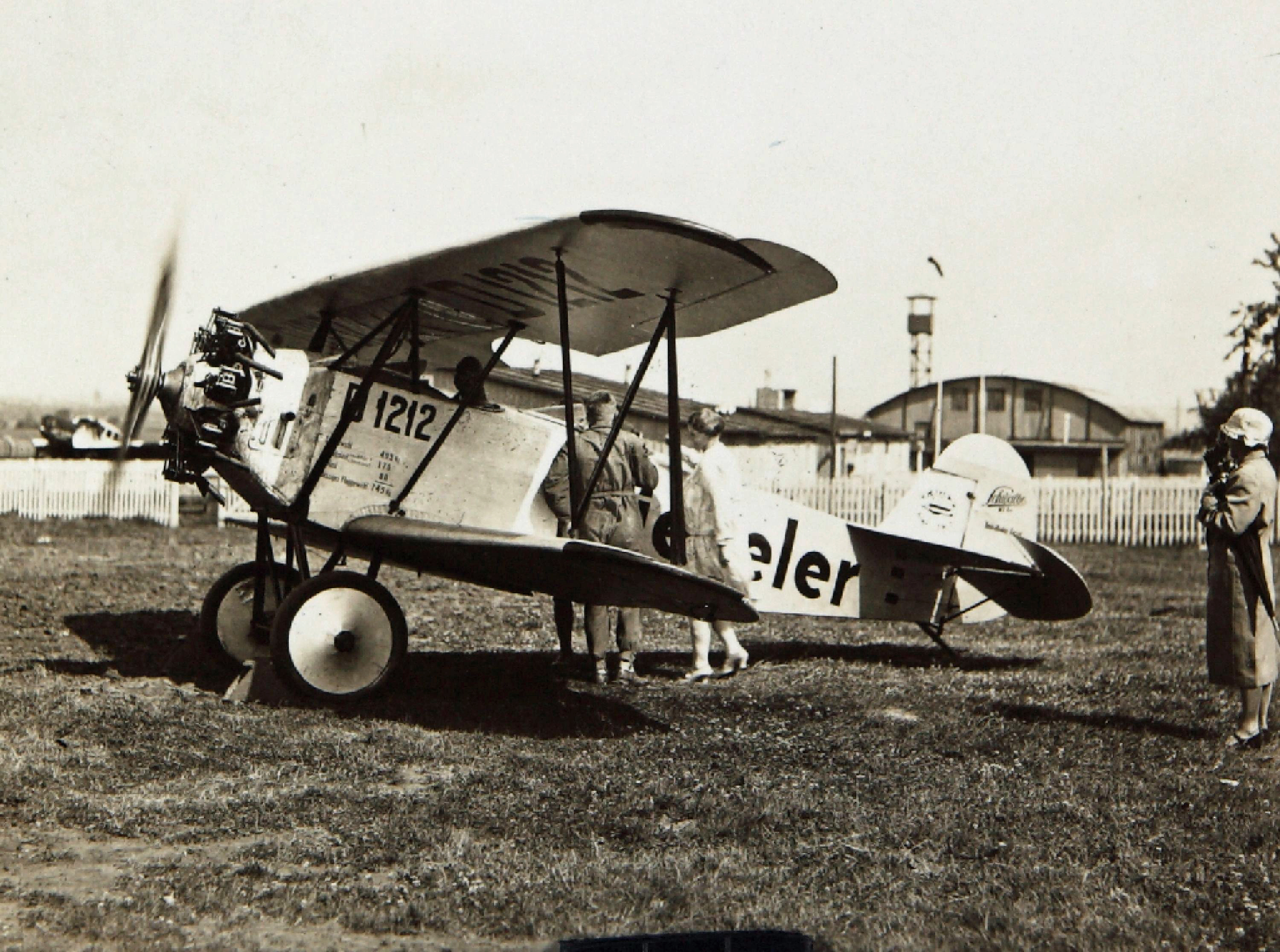 Raab-Katzenstein-Flugzeugwerke aircraft, RK Kl 1C Schwalbe, D 1212